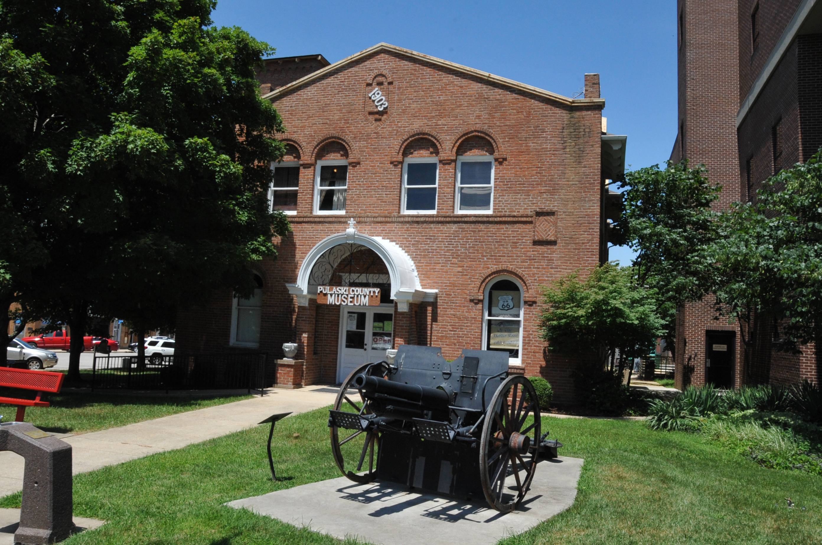 BUILT IN 1903 AND IS NOW USED AS THE COUNTY MUSEUM